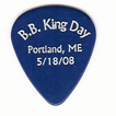 A B.B. King guitar pick, made by the City of Portland, Maine, to commemorate B.B. King day.